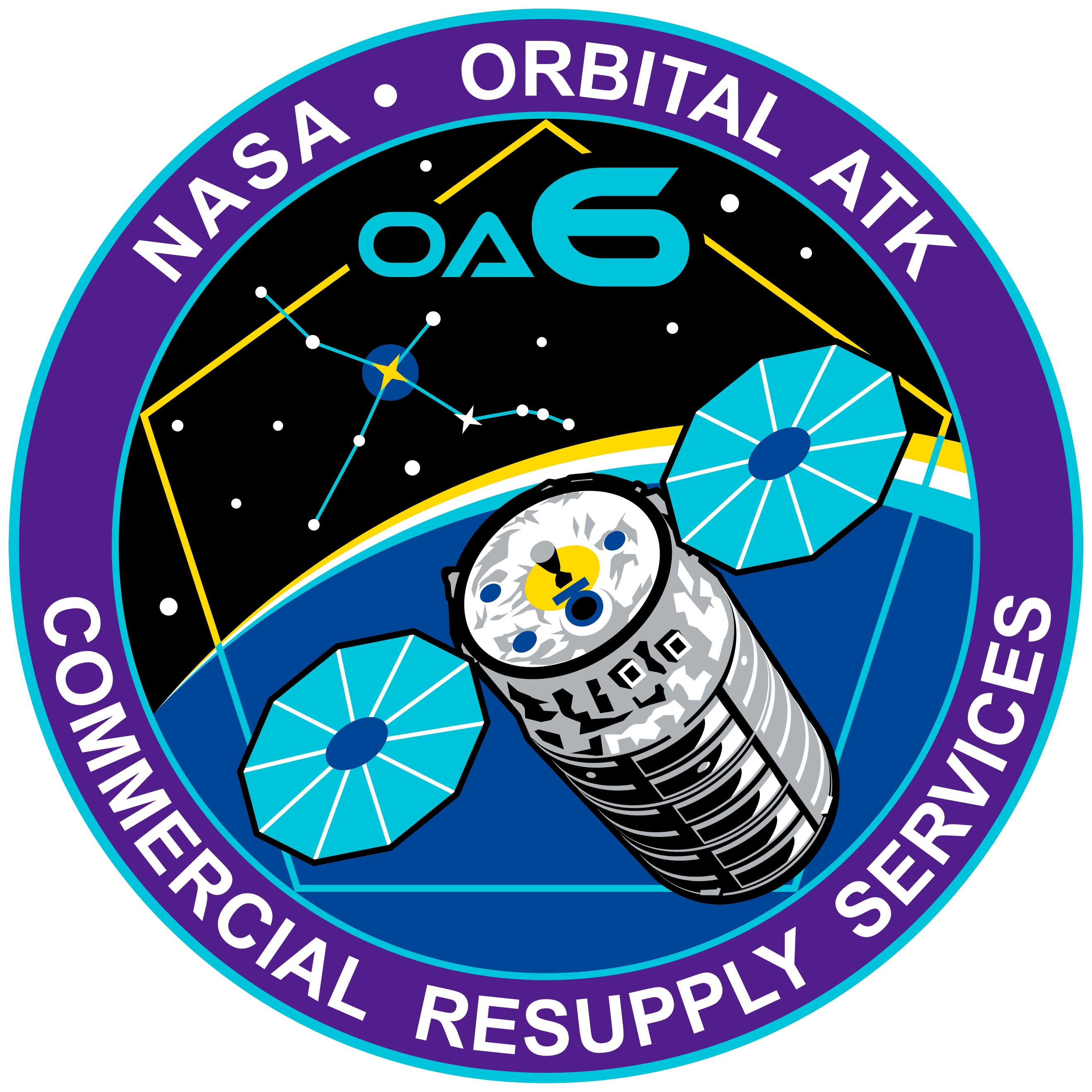 NASA insignia for Orbital's OA-6 resupply flight